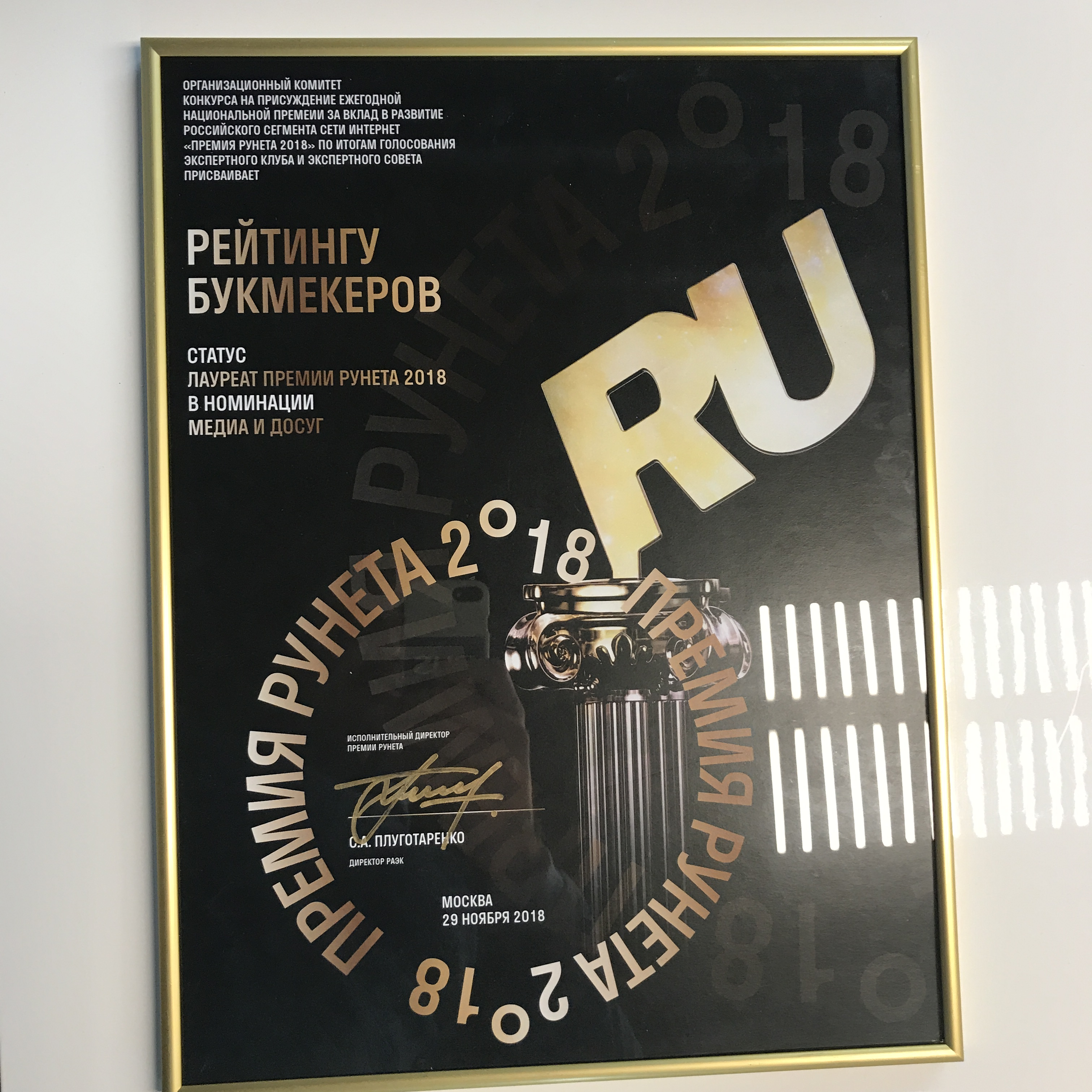 Premia Runeta 2018 The Bookmaker Ratings